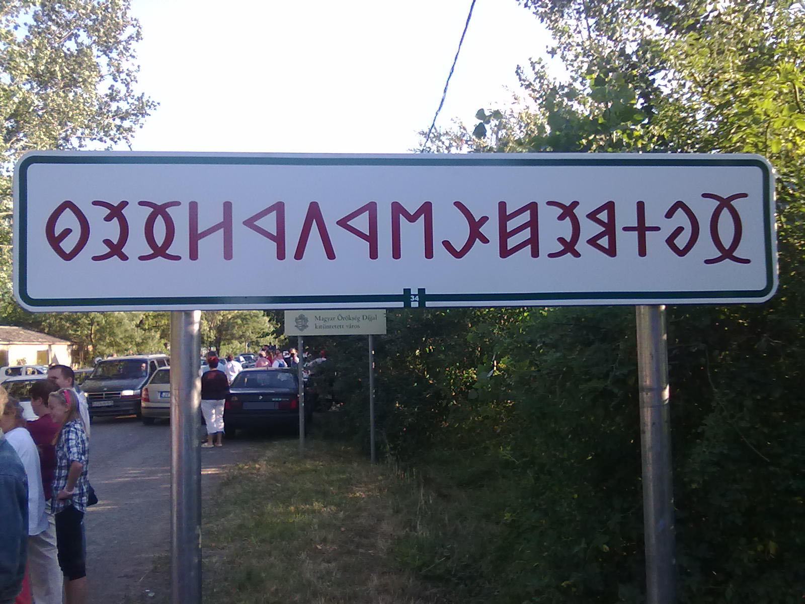 City limit table in Hodmezovasarhely, Hungary. Traditional hungarian letters (rovas)